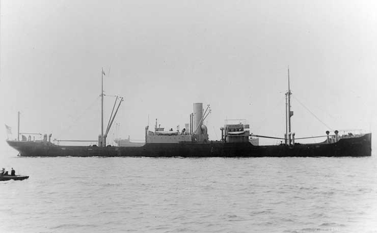 Civilian cargo ship SS Mundelta at Newport News, Virginia, probably at the time of her completion in 1917. She served in the US Navy as USS Mundelta (ID-1301) from 1918 to 1919